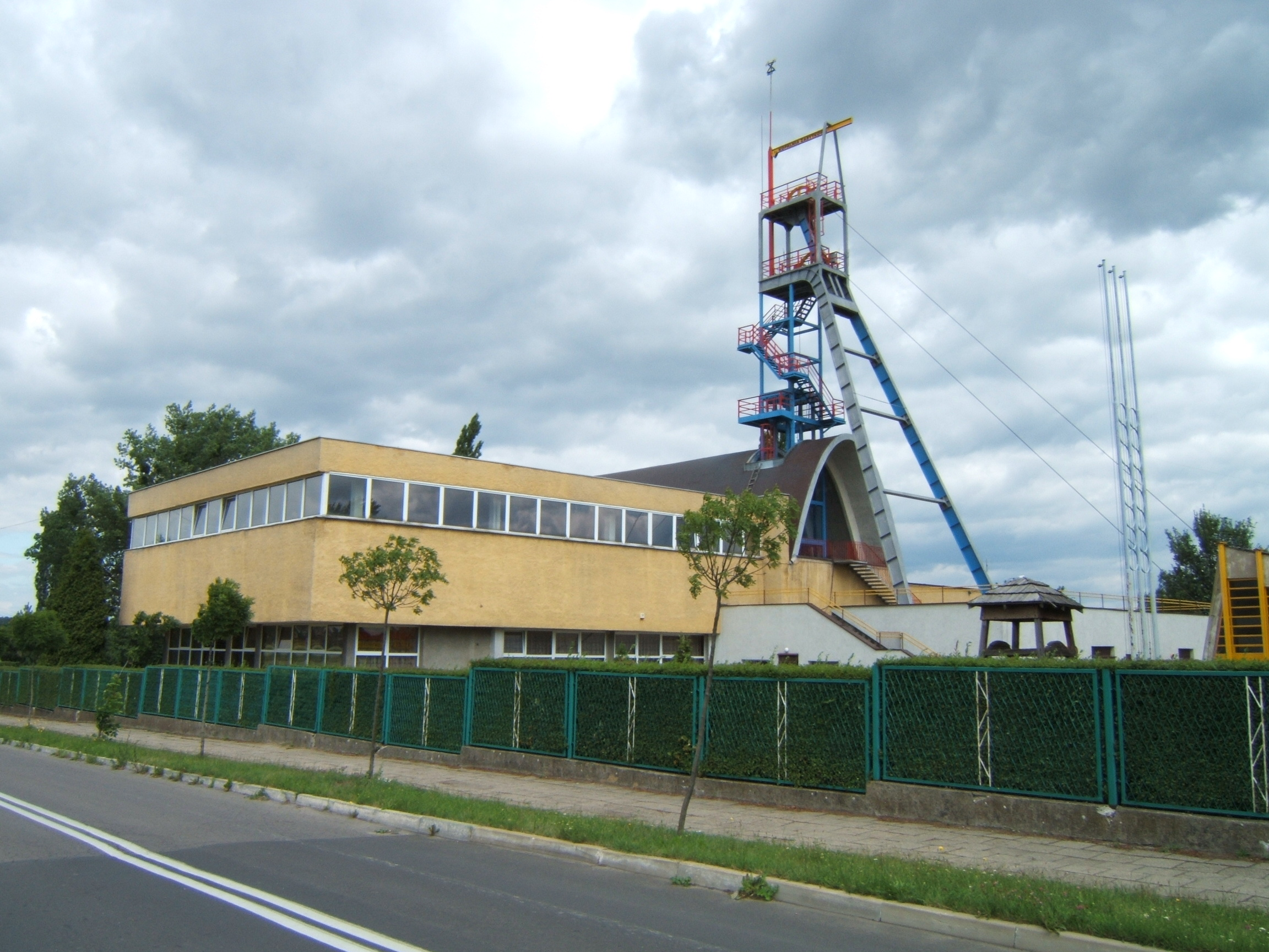 Building of Mining Museum and shaft of Historic Mine in Tarnowskie Góry.